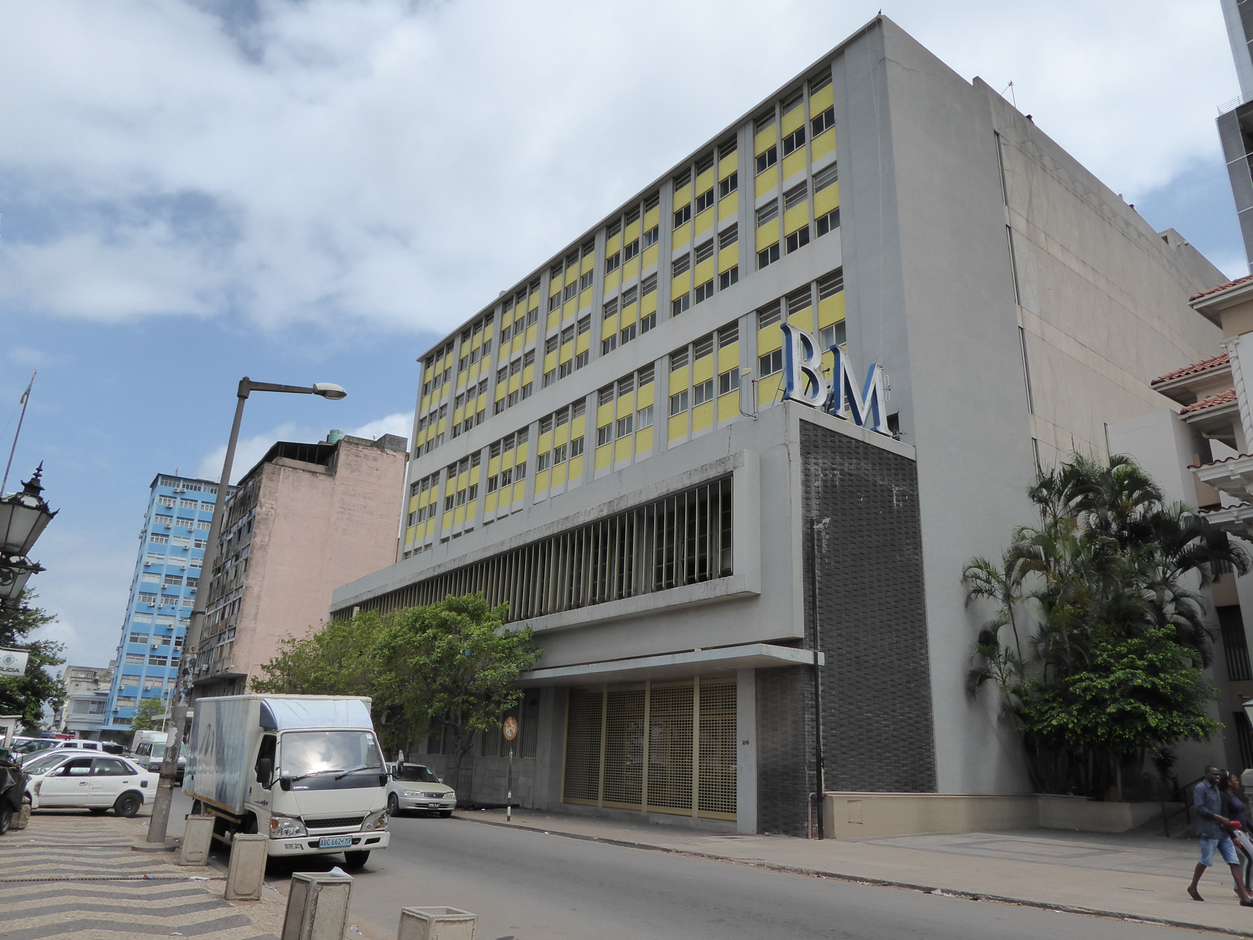 Main building of Banco de Moçambique, seen from Rua Consiglieri Pedroso; Maputo, Mozambique